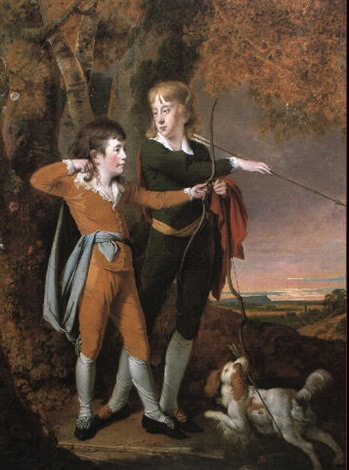 He was the eldest of two sons and heir of Francis Noel Clarke Mundy who was a magistrate and poet of Markeaton near Derby. This Francis became a member of parliament for Derby.